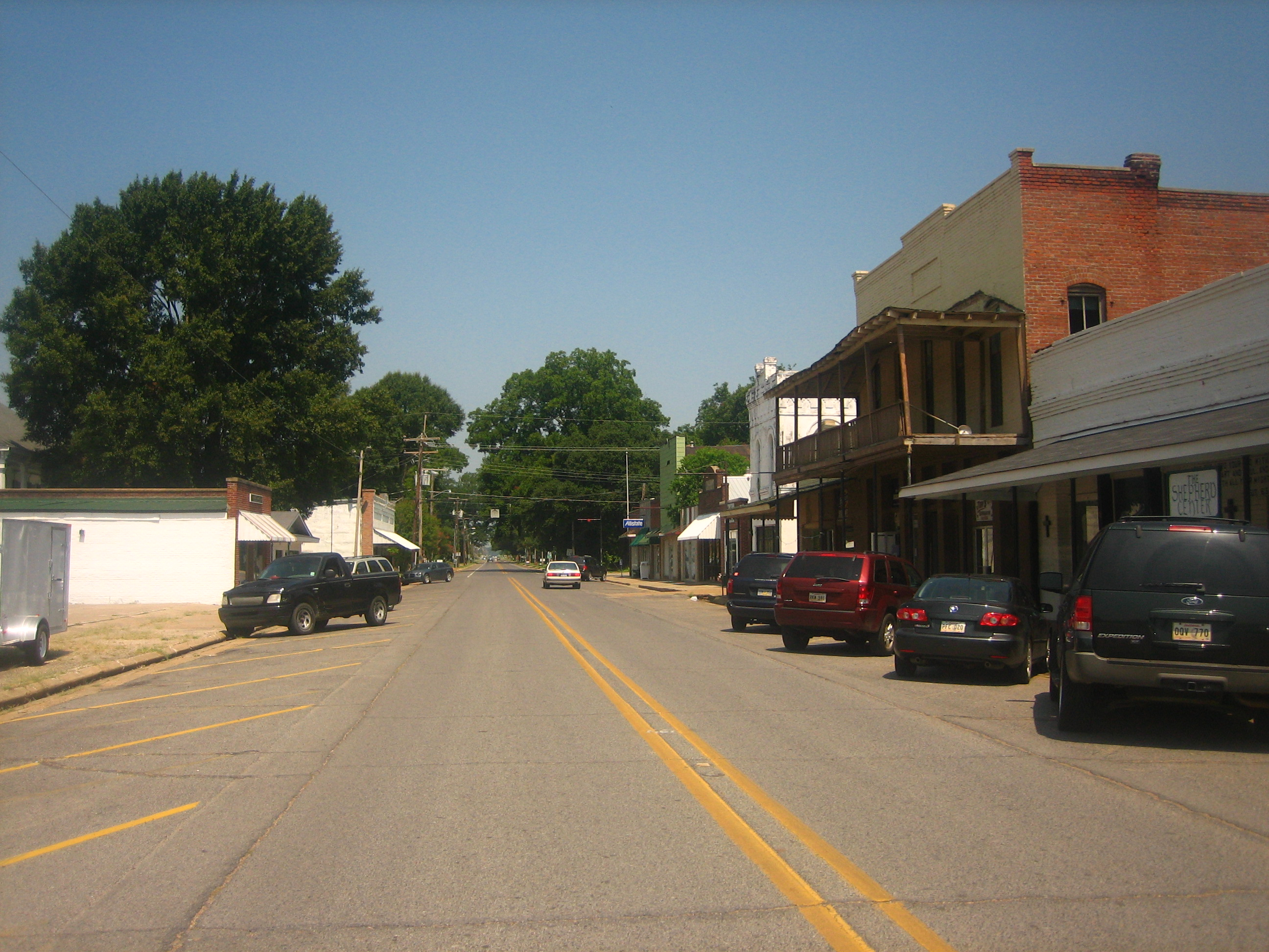 I took photo on Aug. 2, 2008.Billy Hathorn (talk) 02:39, 16 August 2008 (UTC)